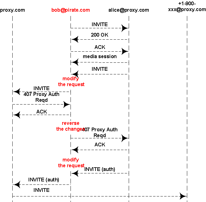 Basic SIP Relay Attack Dataflow